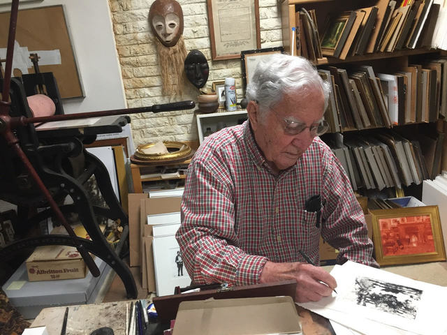 Washington DC artist Jack Boul does both oil paintings, monotypes and sculpture in his studio outside Washington DC.